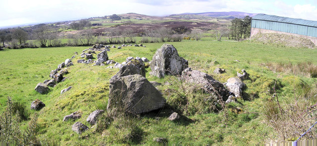 Long Cairn, Loughmacrory. It can be viewed from the side of the road